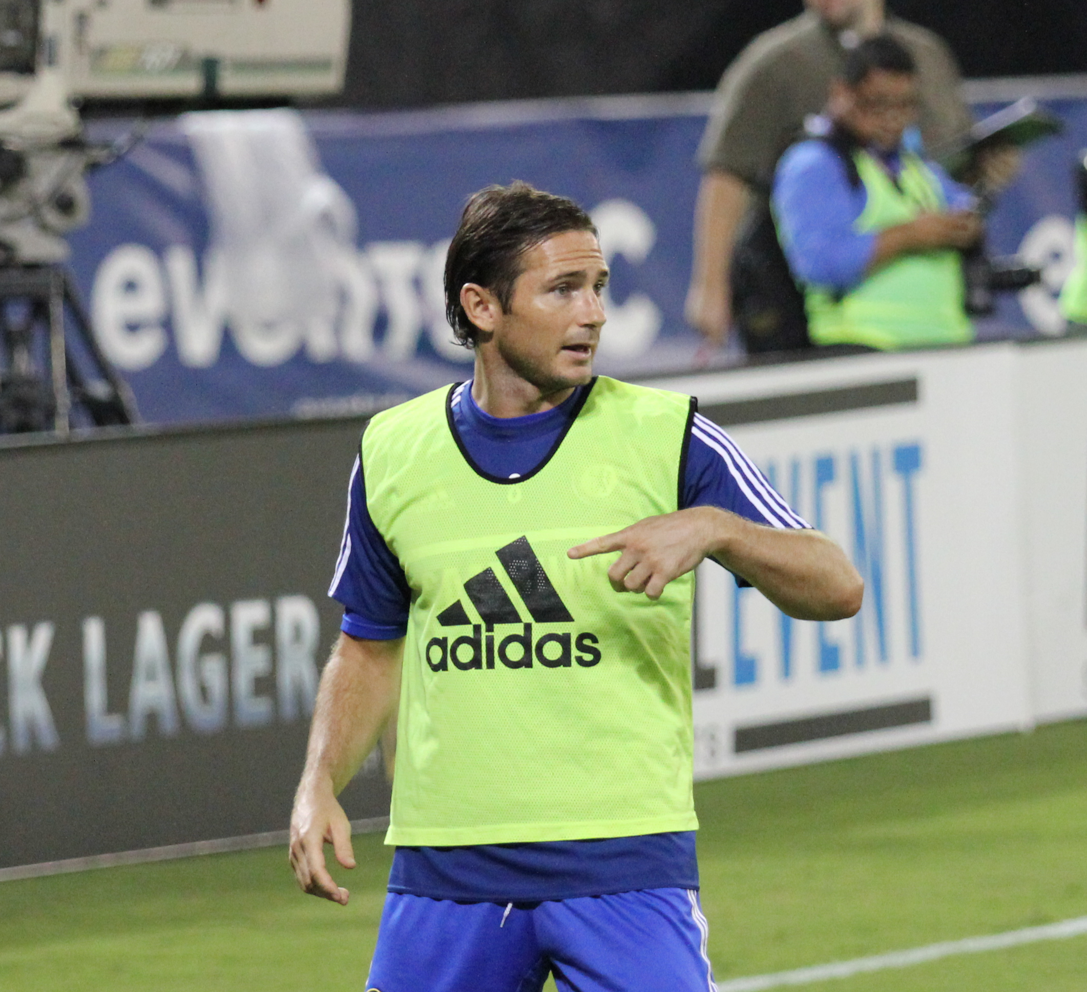 Chelsea vs. AS Roma at RFK Stadium, Washington, DC August 10, 2013